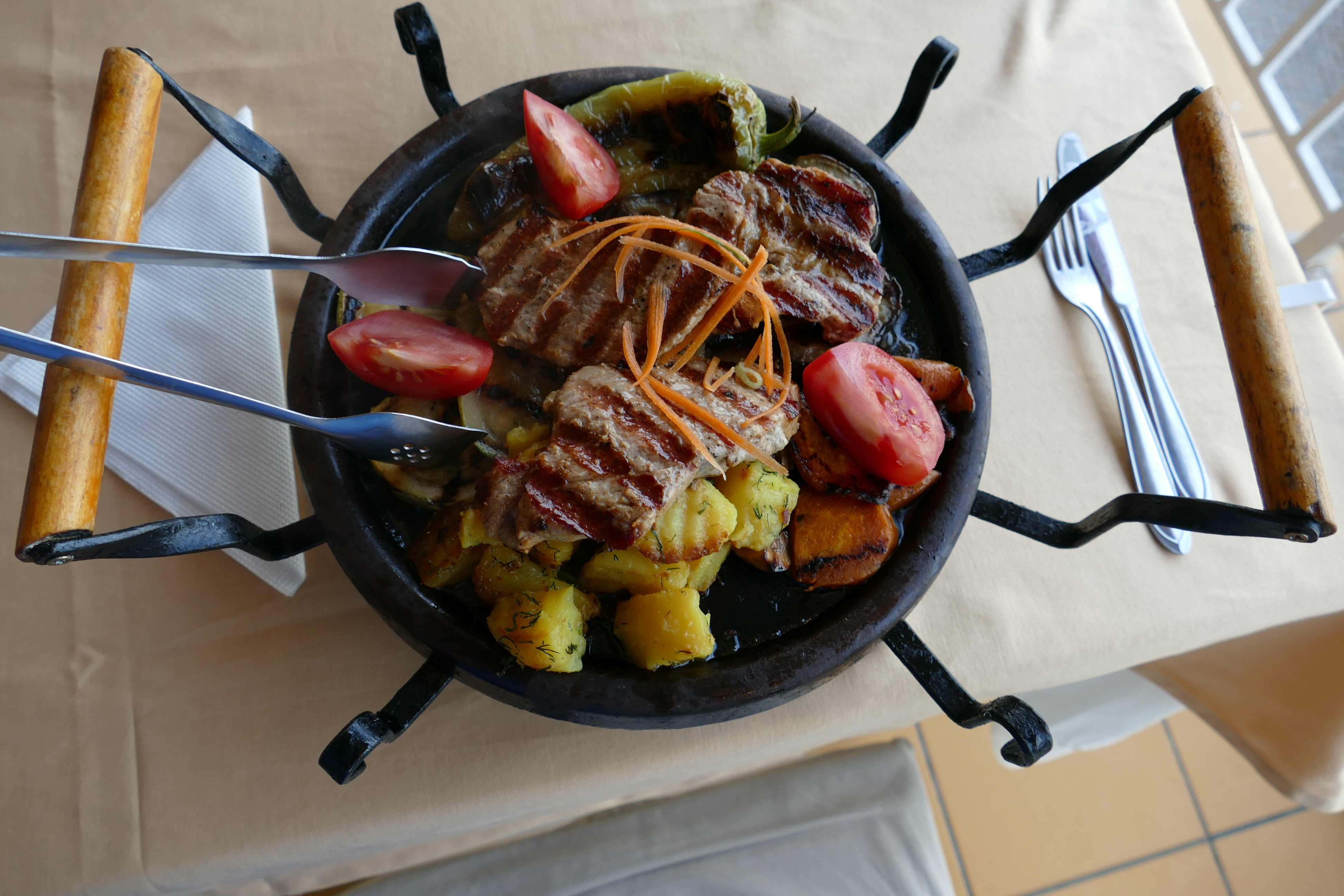 A Sač dish served in a restaurant in Nesebar